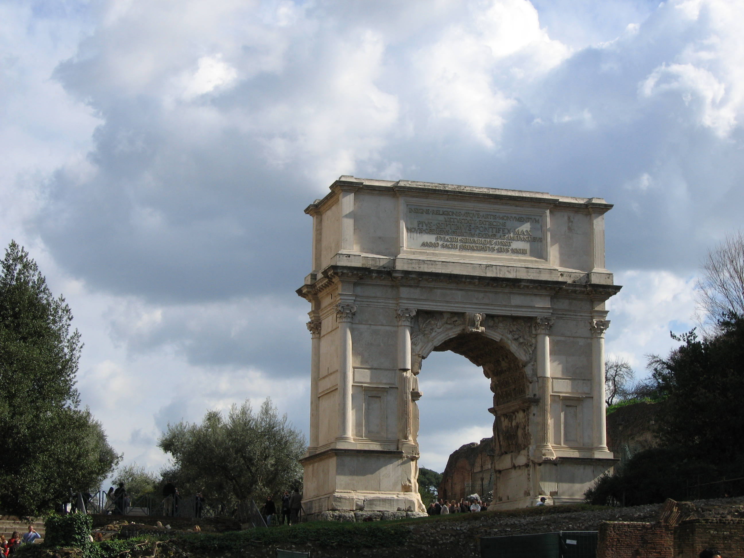 Arch of Titus, Foro Romano